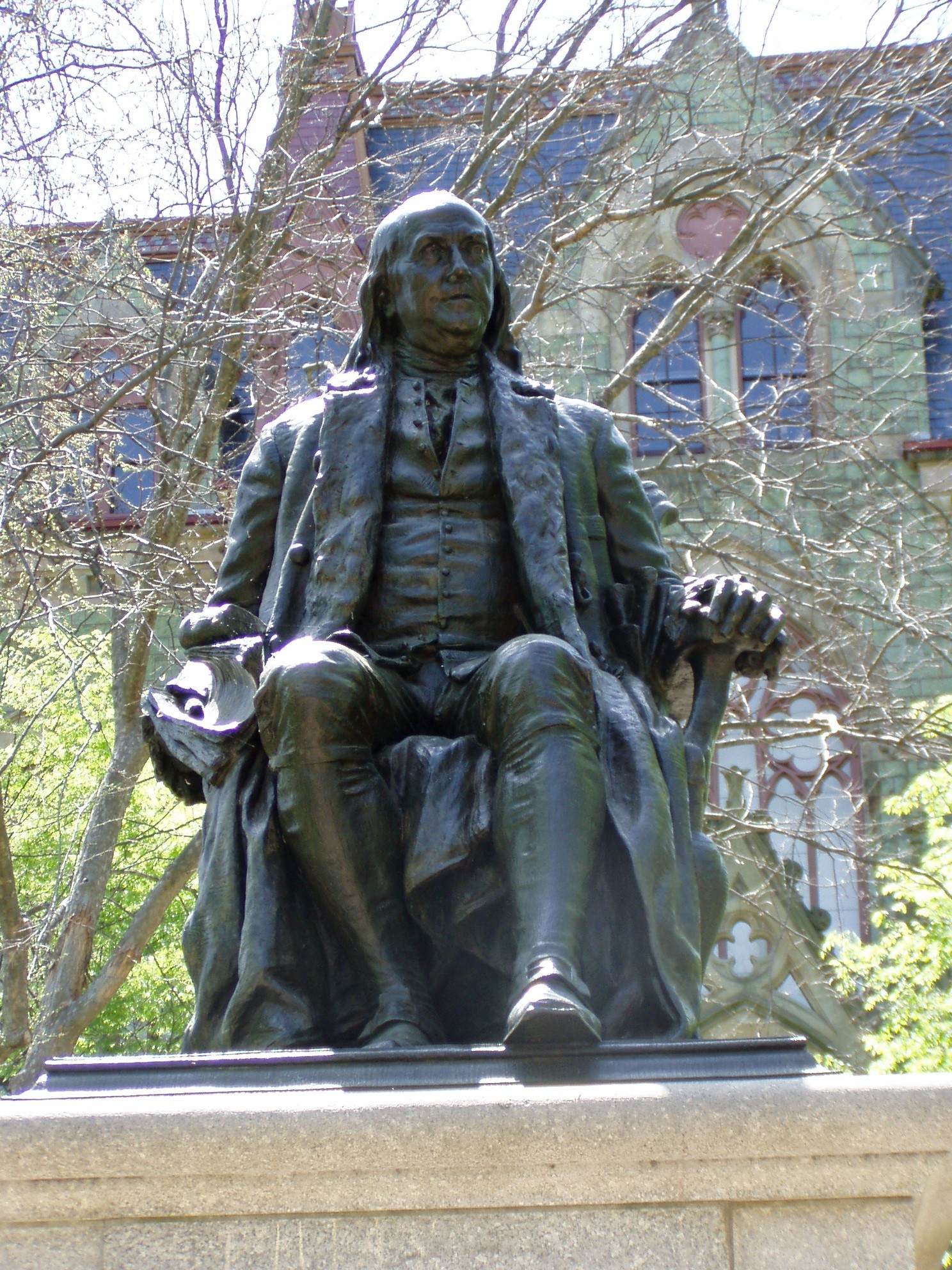 Taken in Philadelphia, Pennsylvania, in April 2006. Sculpture of Benjamin Franklin at the University of Pennsylvania, from which The Button purportedly comes.